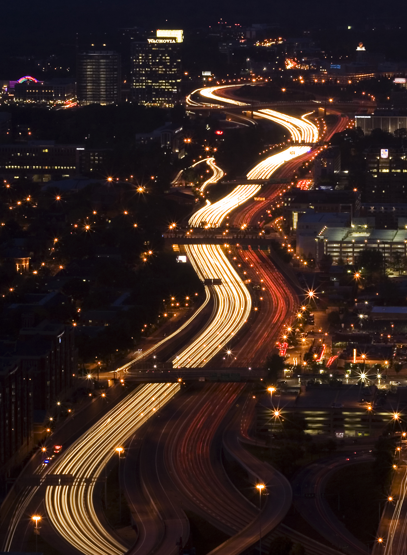 Clogged Arteries in Atlanta.